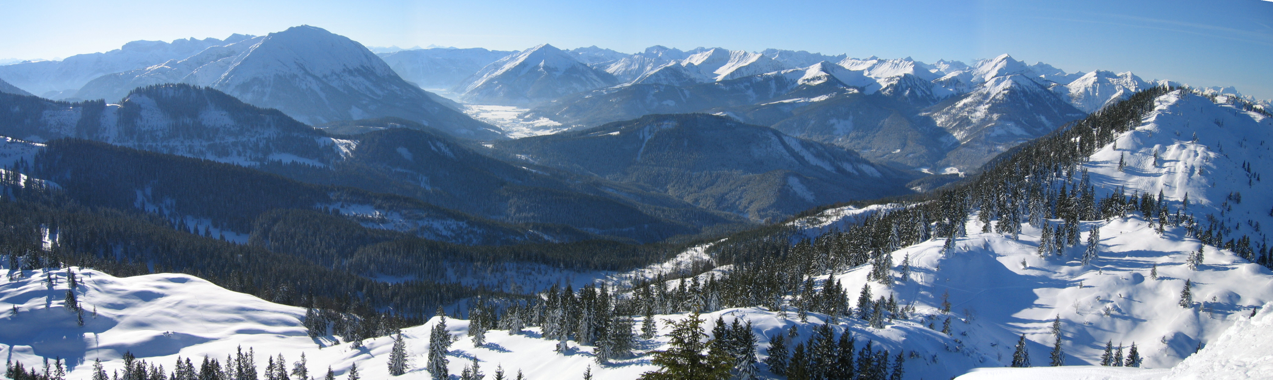 Scenic View from top of Bavarian mountain "Schildenstein".